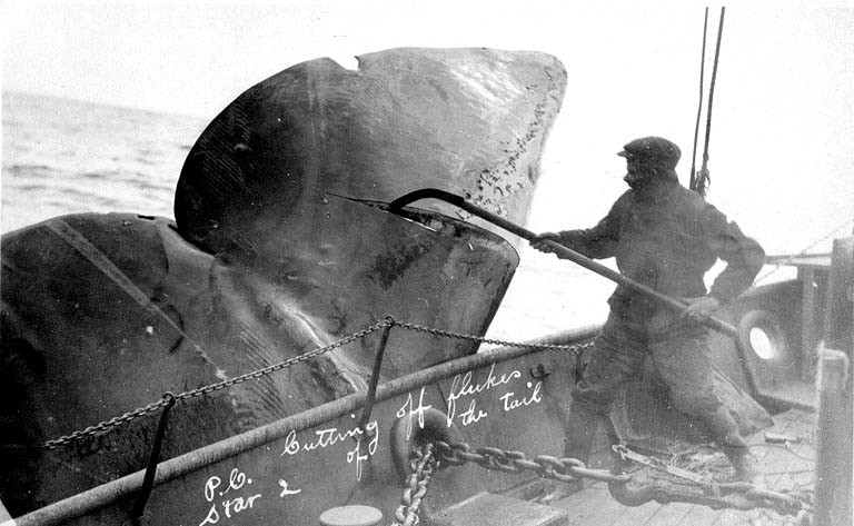 Caption on image: P.G. Star 2. Cutting off flukes of the tail . On verso of image: Alaska-Whaling In Folder 120 Subjects (LCTGM): Whales--Alaska Subjects (LCSH): Whaling--Alaska; Whaling ships--Alaska; Whaling--Alaska; Whalers (Persons)--Alaska; Star 2